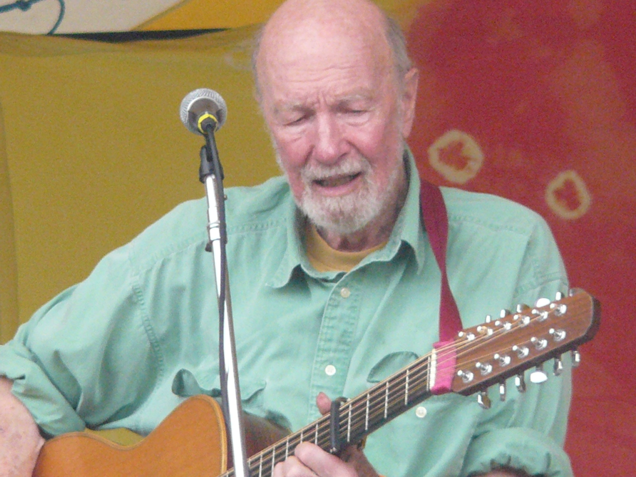 Pete Seeger, Pamela Means, Magpie; Clearwater Festival 2008; Croton on Hudson NY; June 22, 2008